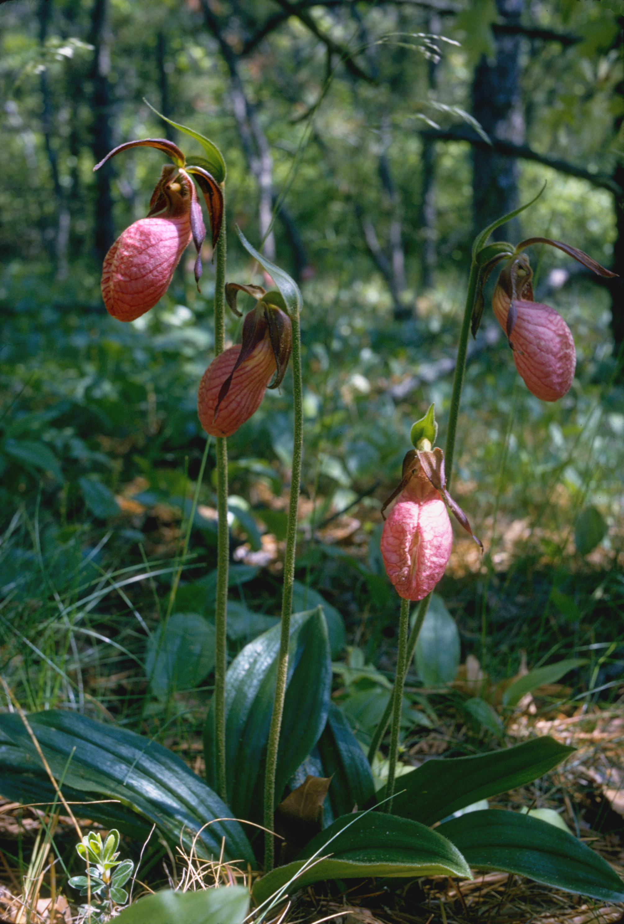 Location Cape Cod National Seashore Description The great Outer Beach described by Thoreau in the 1800s is protected within the national seashore. Forty miles of pristine sandy beach, marshes, ponds, and uplands support diverse species. Lighthouses, cultural landscapes, and wild cranberry bogs offer a glimpse of Cape Cod’s past and continuing ways of life.